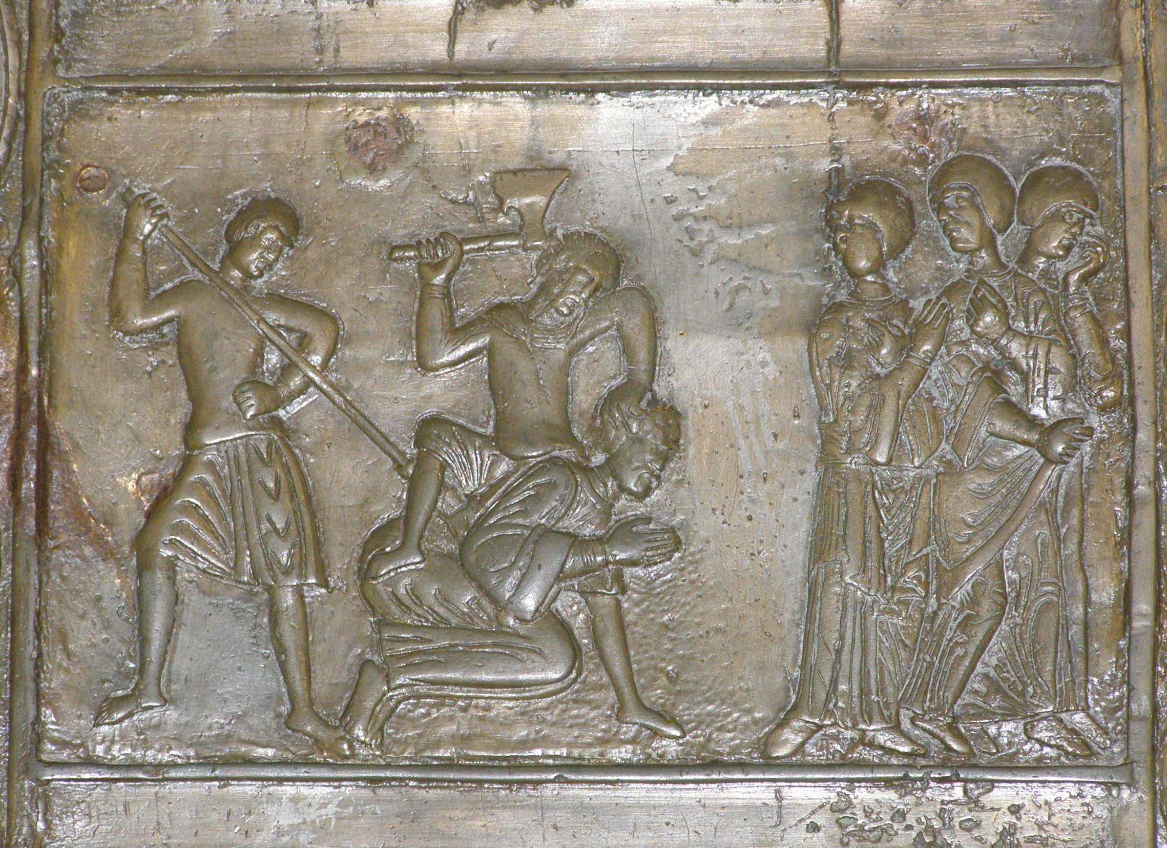 Gniezno Doors